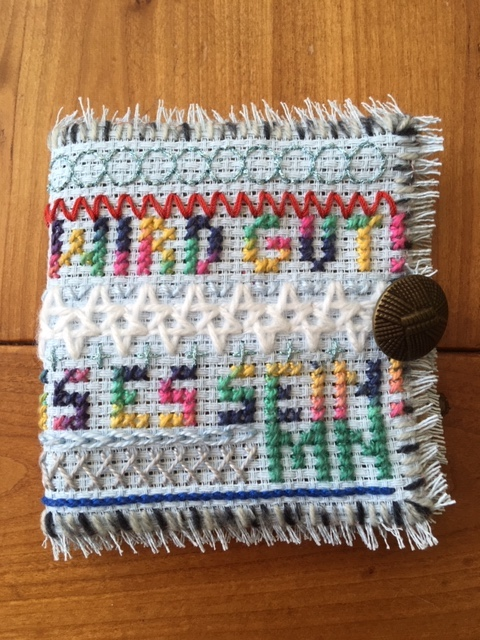 Needle case